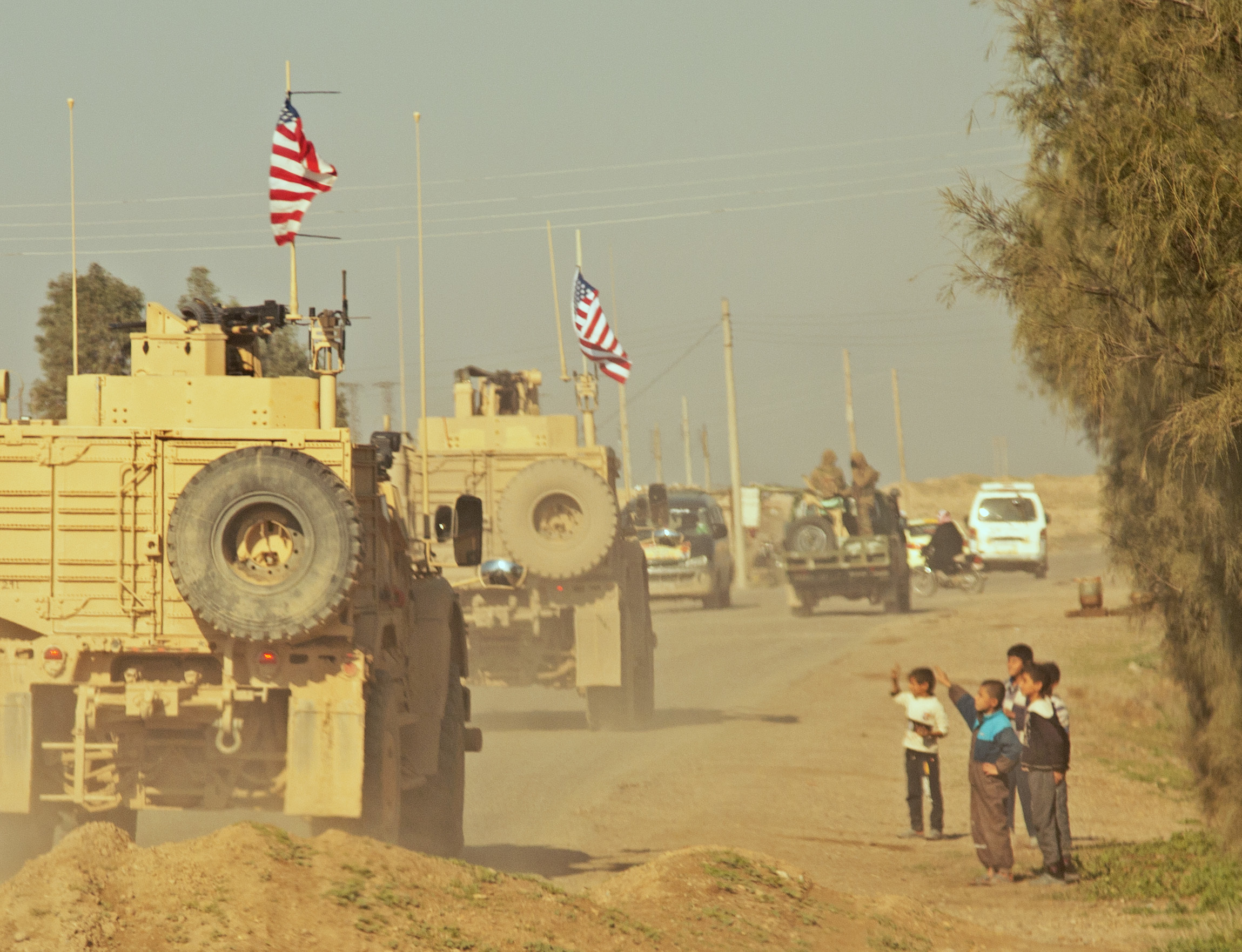 US troops convoy in Syria